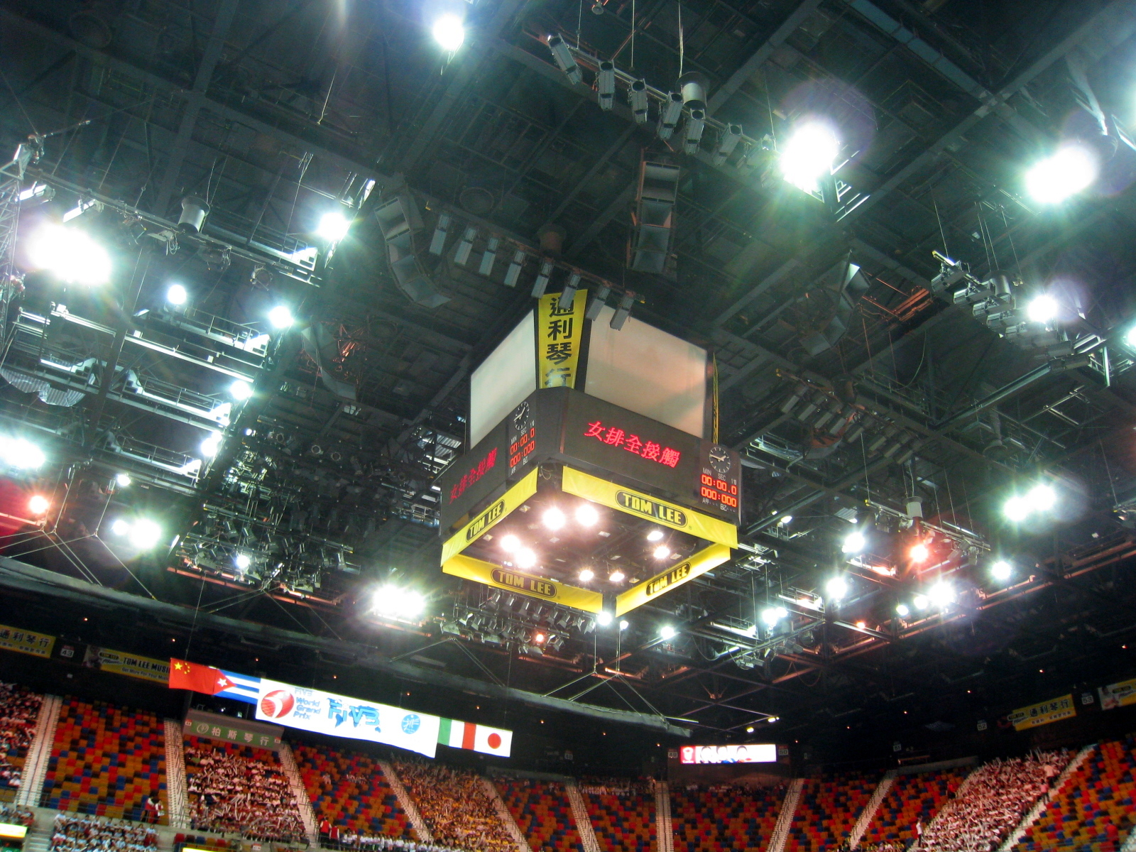 Hong Kong Coliseum ceiling 中文（香港）: 香港體育館天花